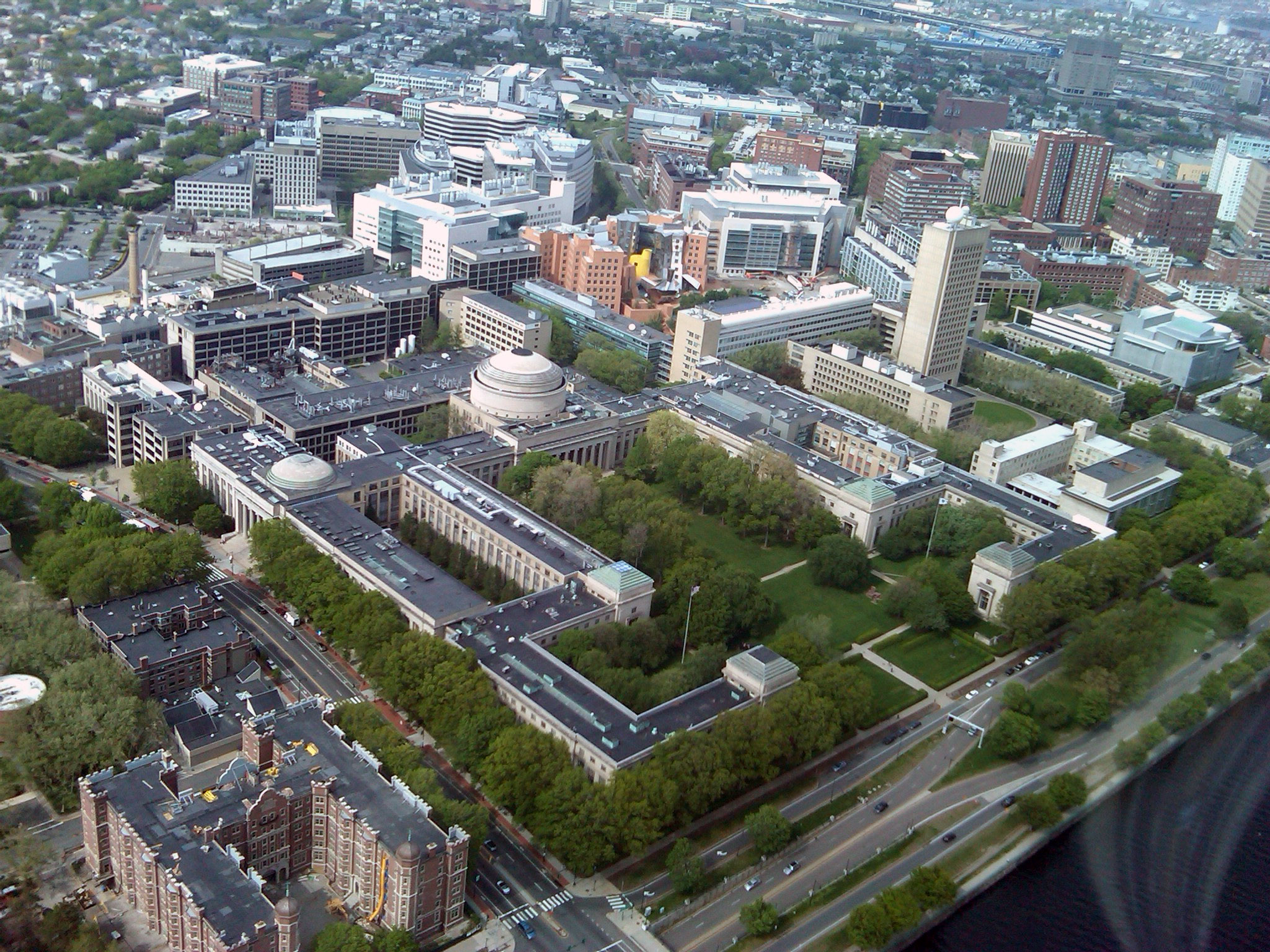 View of the Massachusetts Institute of Technology's main campus from a helicopter flying over the Charles River.